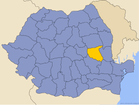 Location of Vrancea County in Romania.